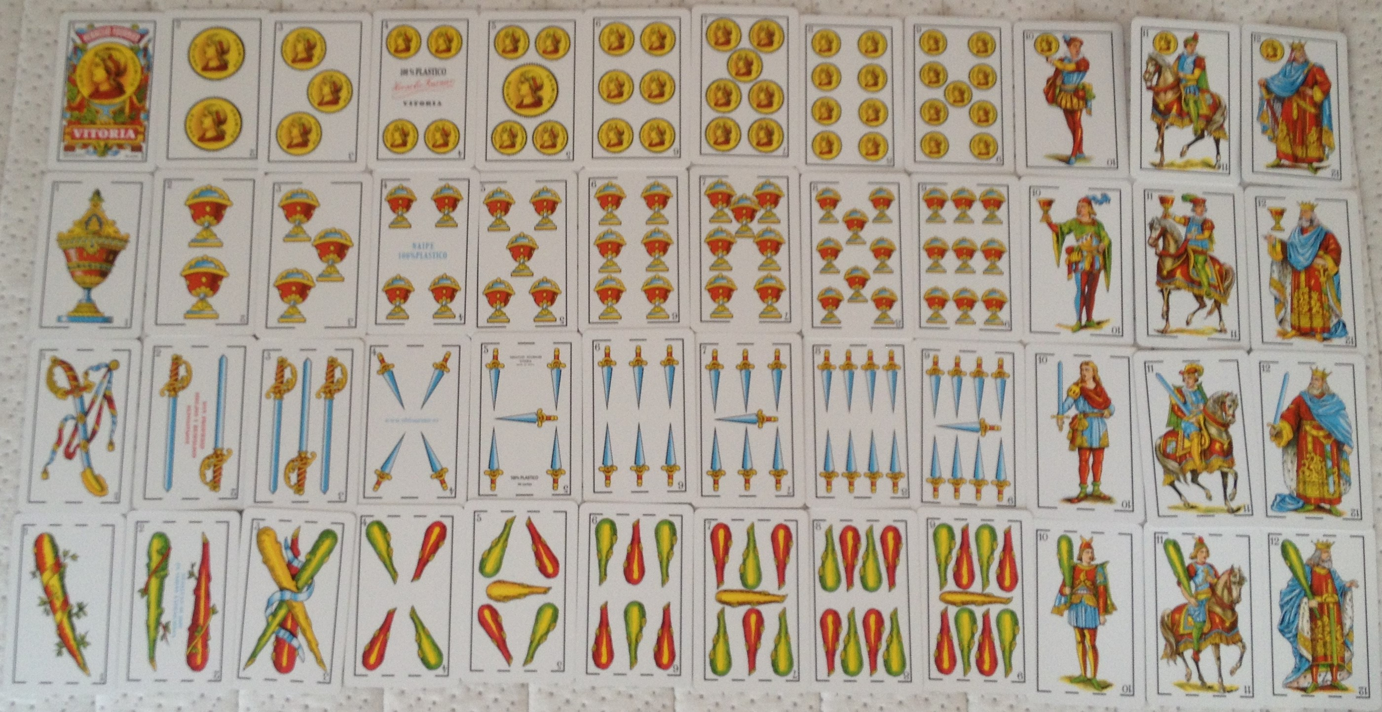 A photo of a Castilian pattern deck with all 48 cards manufactured by Naipes Heraclio Fournier.